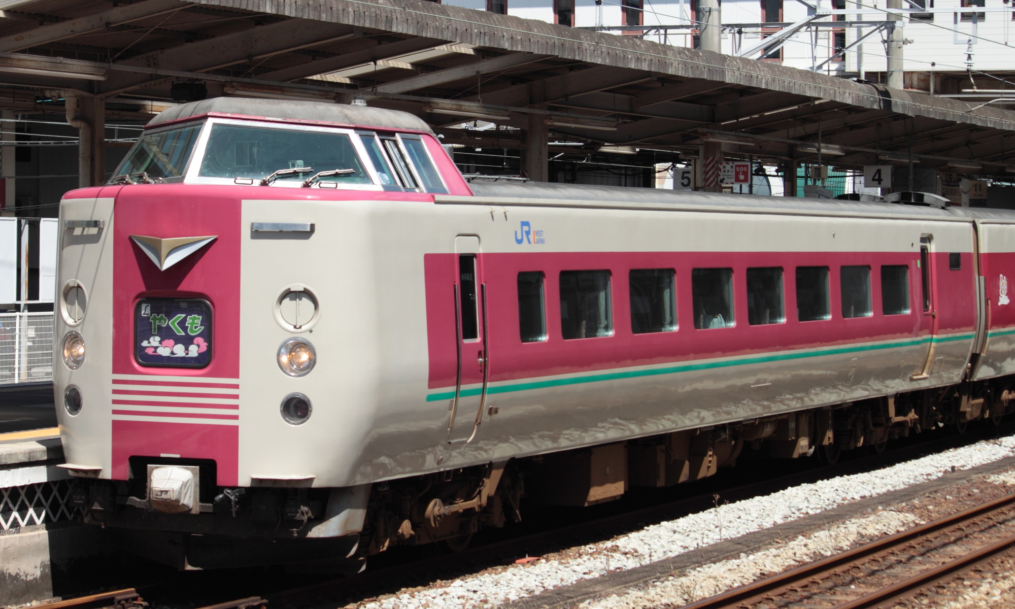 JR West 381 series EMU (KuRo 381-139) at Kurashiki Station